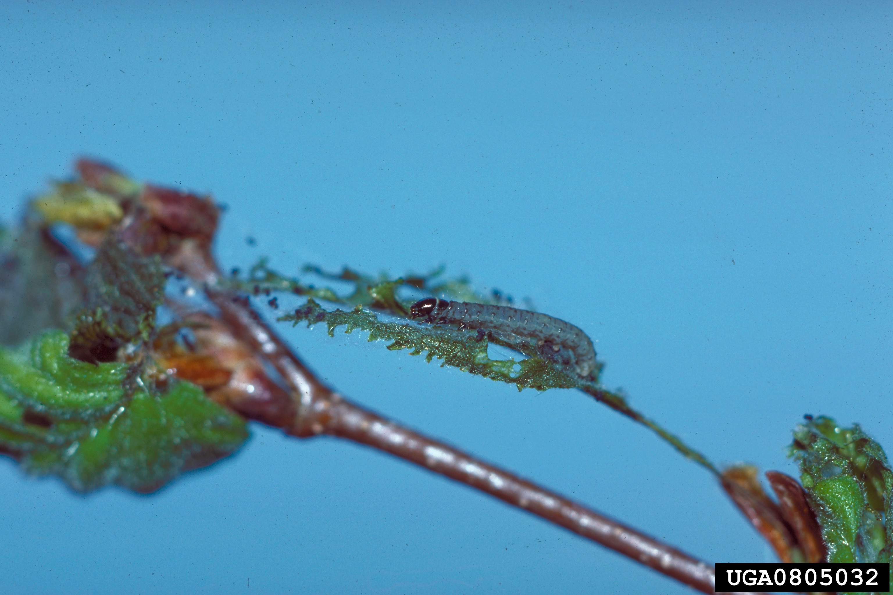 Caterpillar of Epinotia solandriana